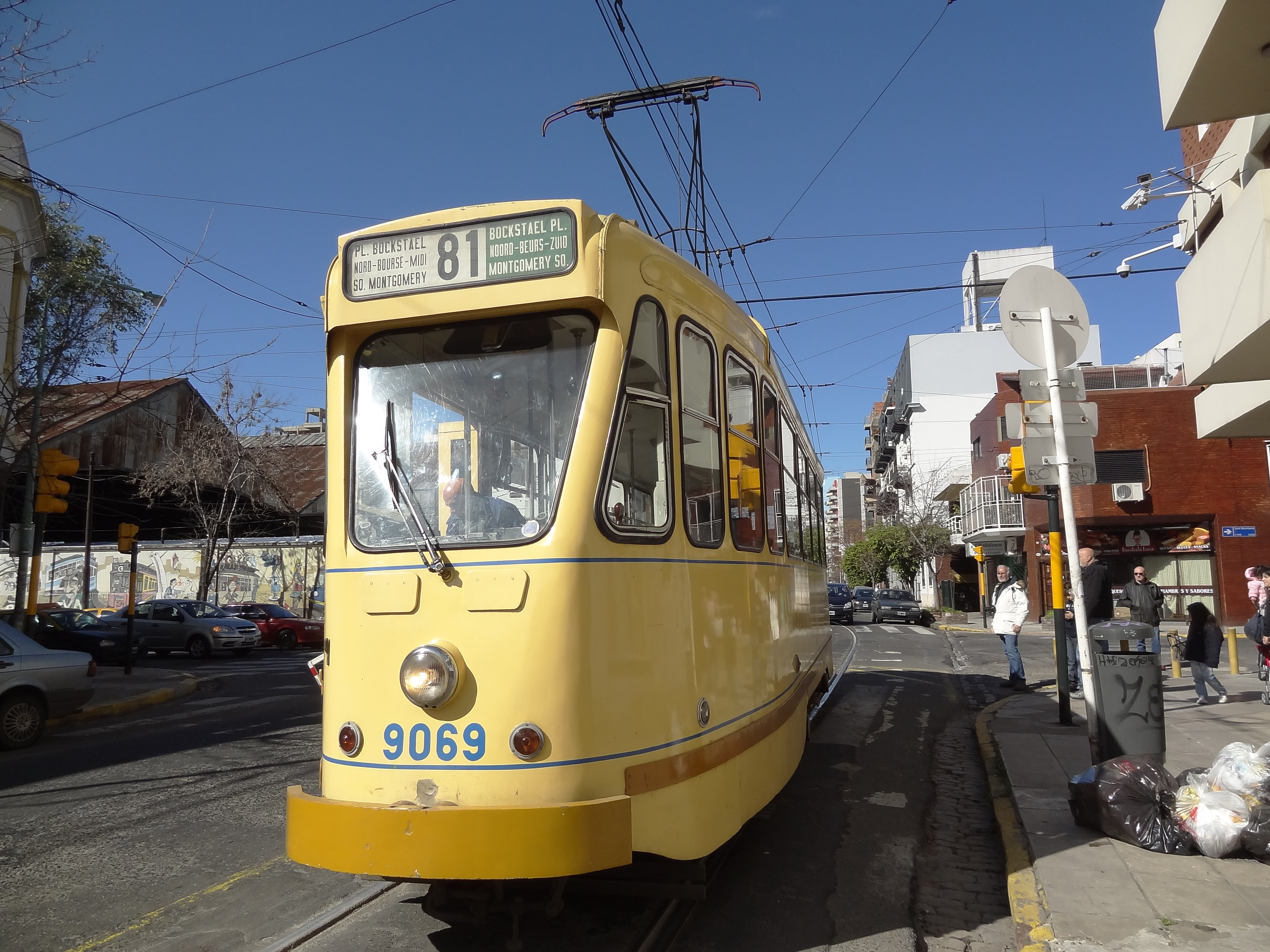 9069 Brussels tramway, in Buenos Aires.